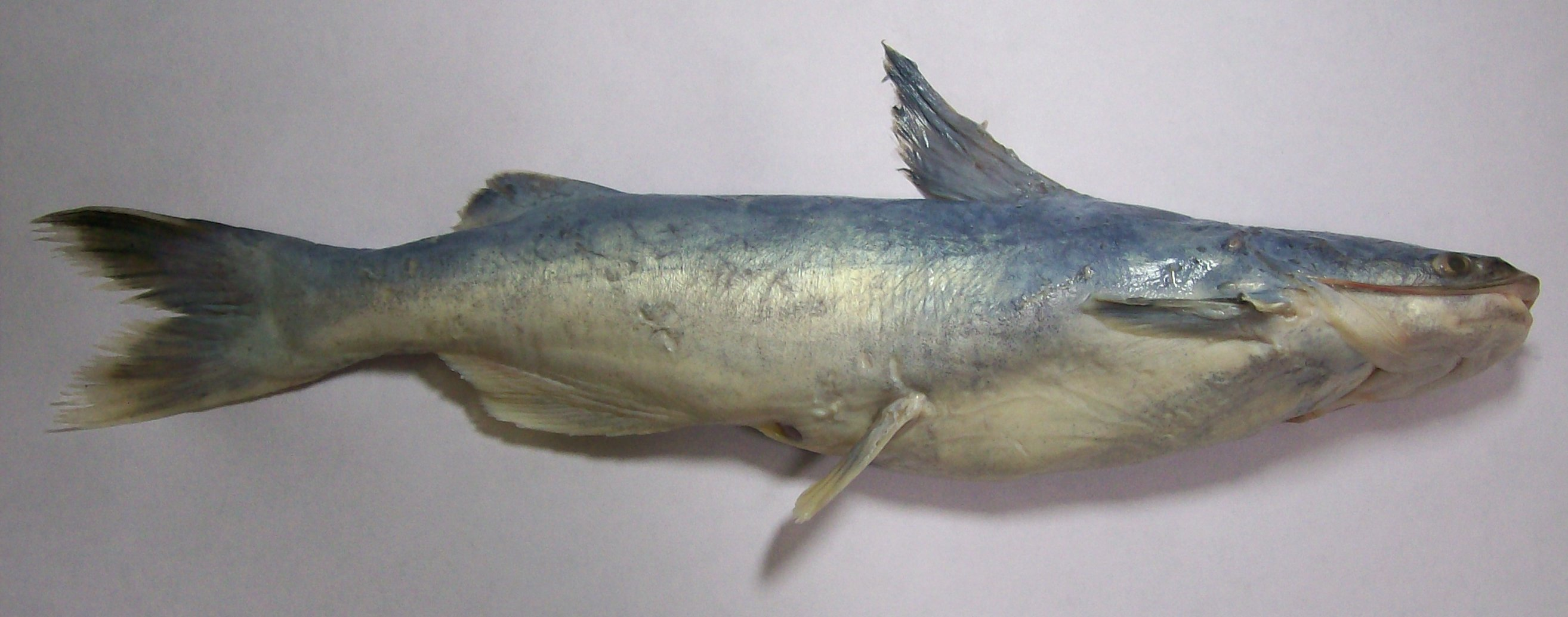 Soldier catfish. Osteogeneiosus militaris. One pair of maxillary barbels that are stiff and sharp. The barbel in view in this picture is broken and normally extends past the pectoral fin. Dorsal and pectoral fins have spines. 6 soft dorsal rays, 15 anal rays. Vomeral teeth in narrow crescent shaped ridge. a pair of bean shaped patches of palatine teeth with inner curve of each patch facing medial line. Location - India.